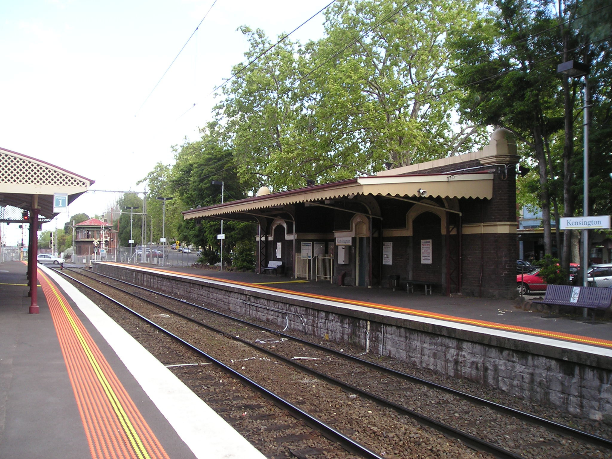 Kensington railway station in Kensington, Victoria.